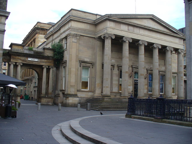 Royal Exchange Square Ionic architecture in Glasgow's Victorian "Merchant City". Today it houses a Border's Bookshop. Previously The Royal Bank of Scotland, Archibald Elliott architect, 1827.